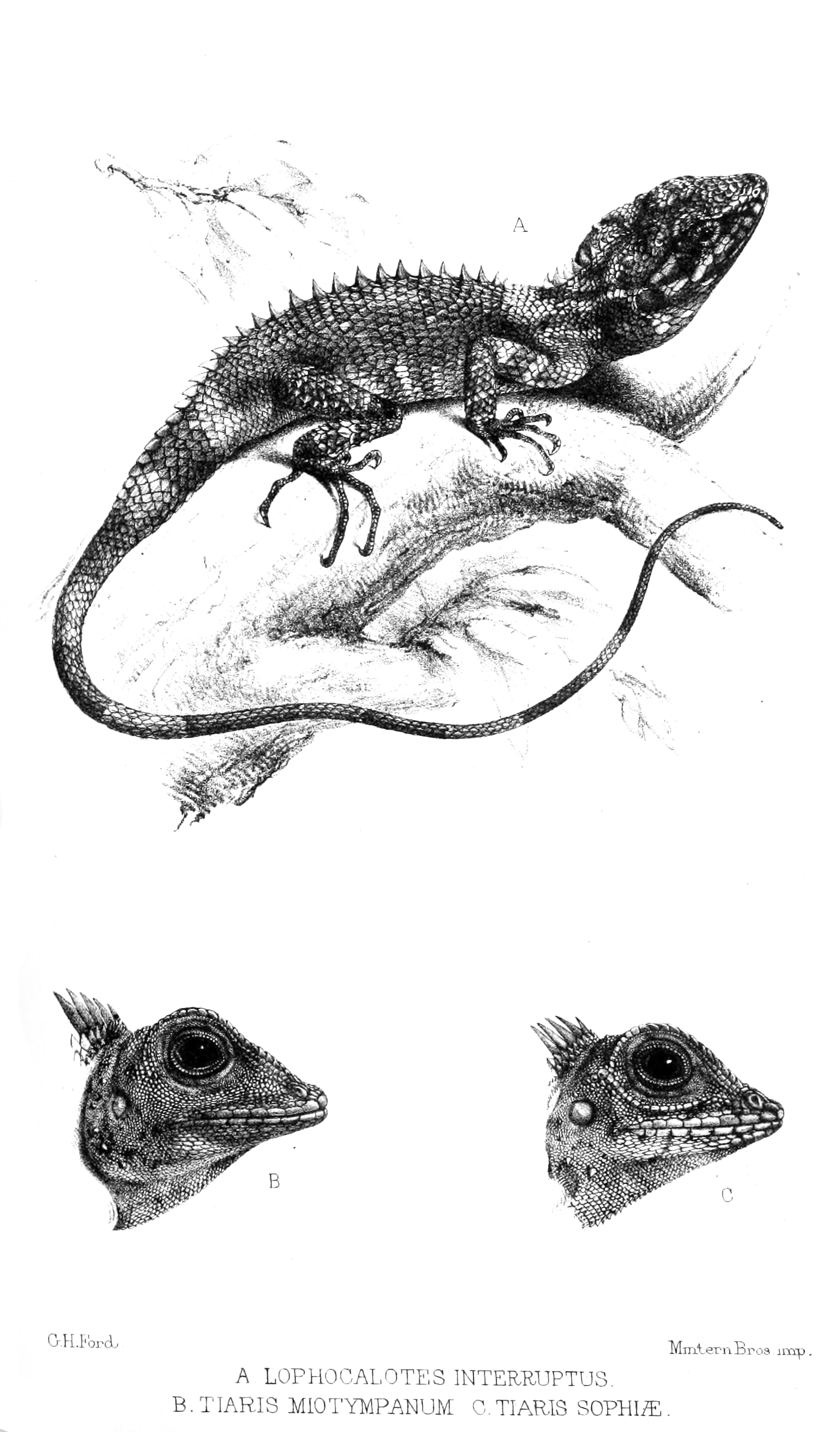 A. Crested Lizard B. Borneo Forest Dragon, head from lateral C. Negros Forest Dragon, head from lateral